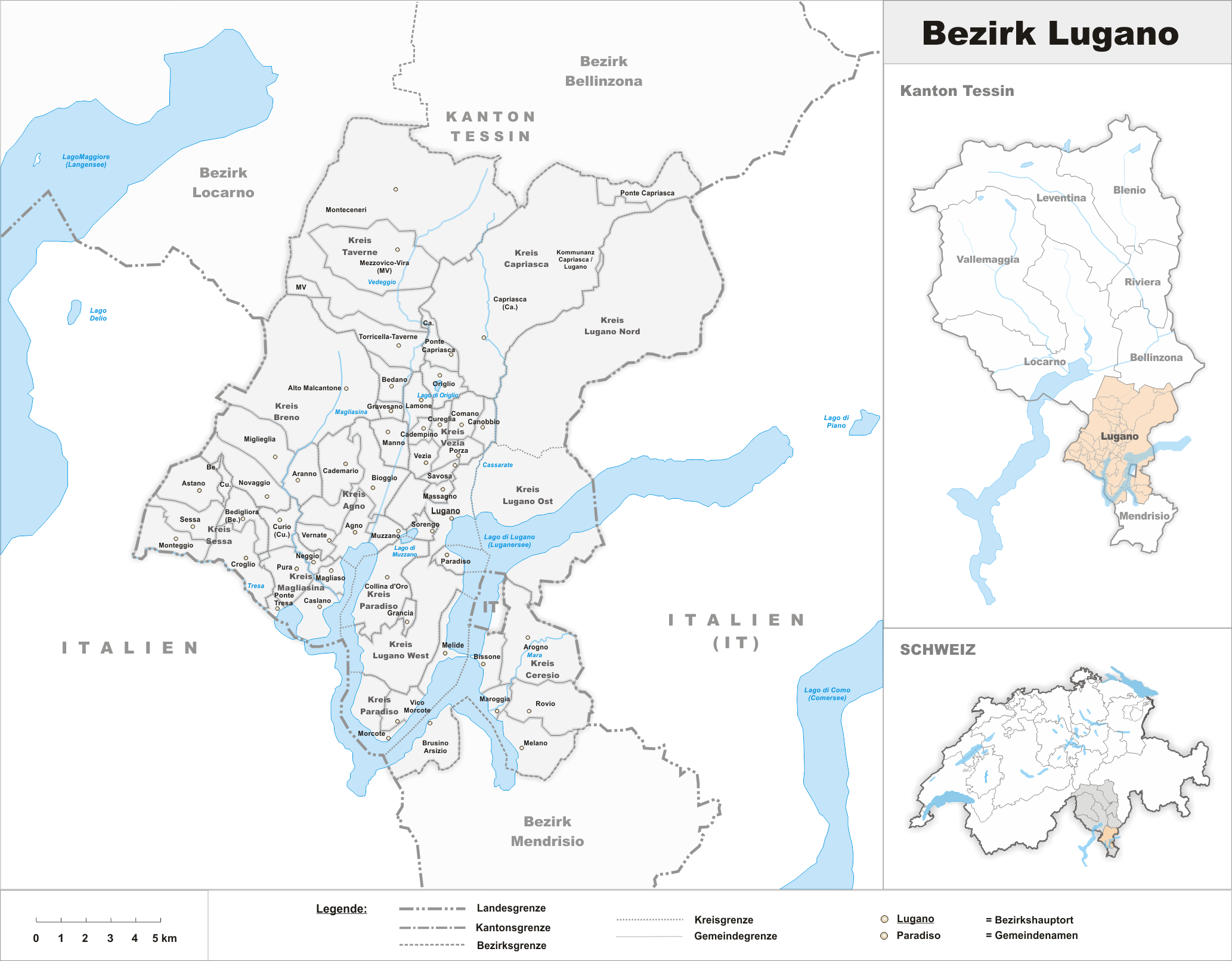 Municipalities in the district of Lugano